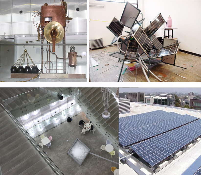 World Saving Machine III is a machine that utilizes solar energy to produce ice. Installation at MoA Museum of Art, Seoul, South Korea